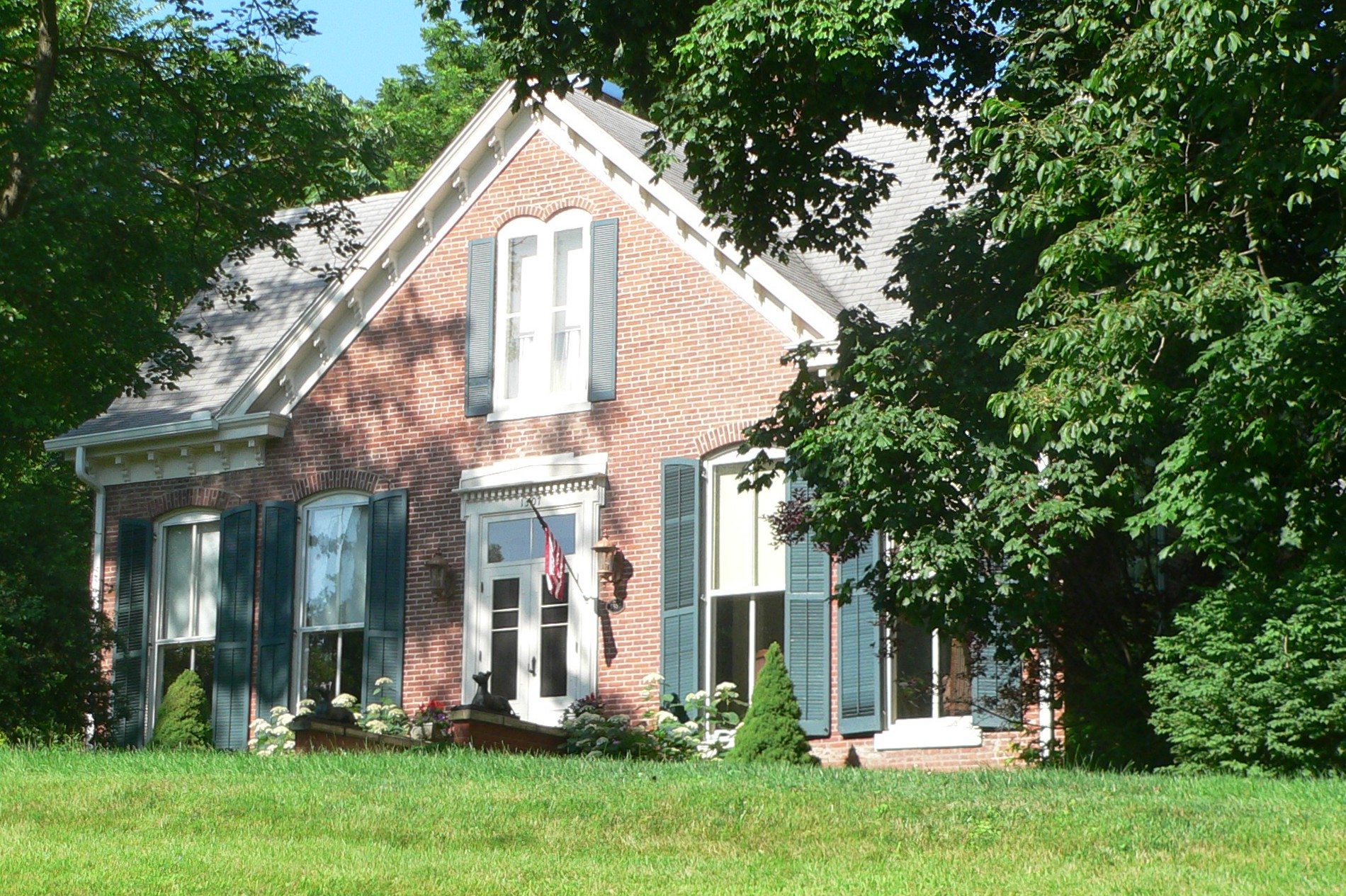 Josephine Trigg Pigott house, at 1307 6th Street in Boonville, Missour; seen from the northeast.